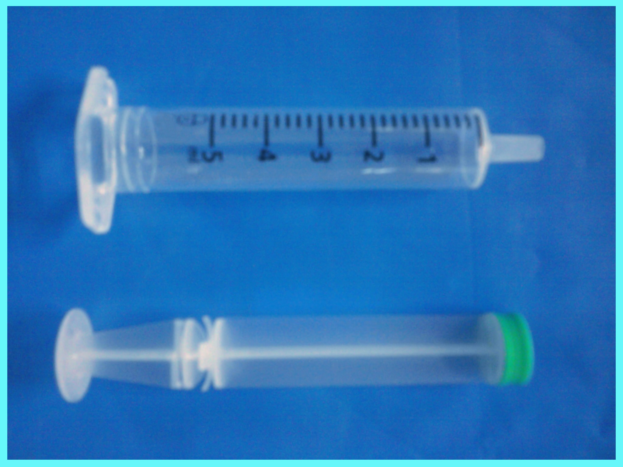 syringe:barrel and plunger being in seperated state.